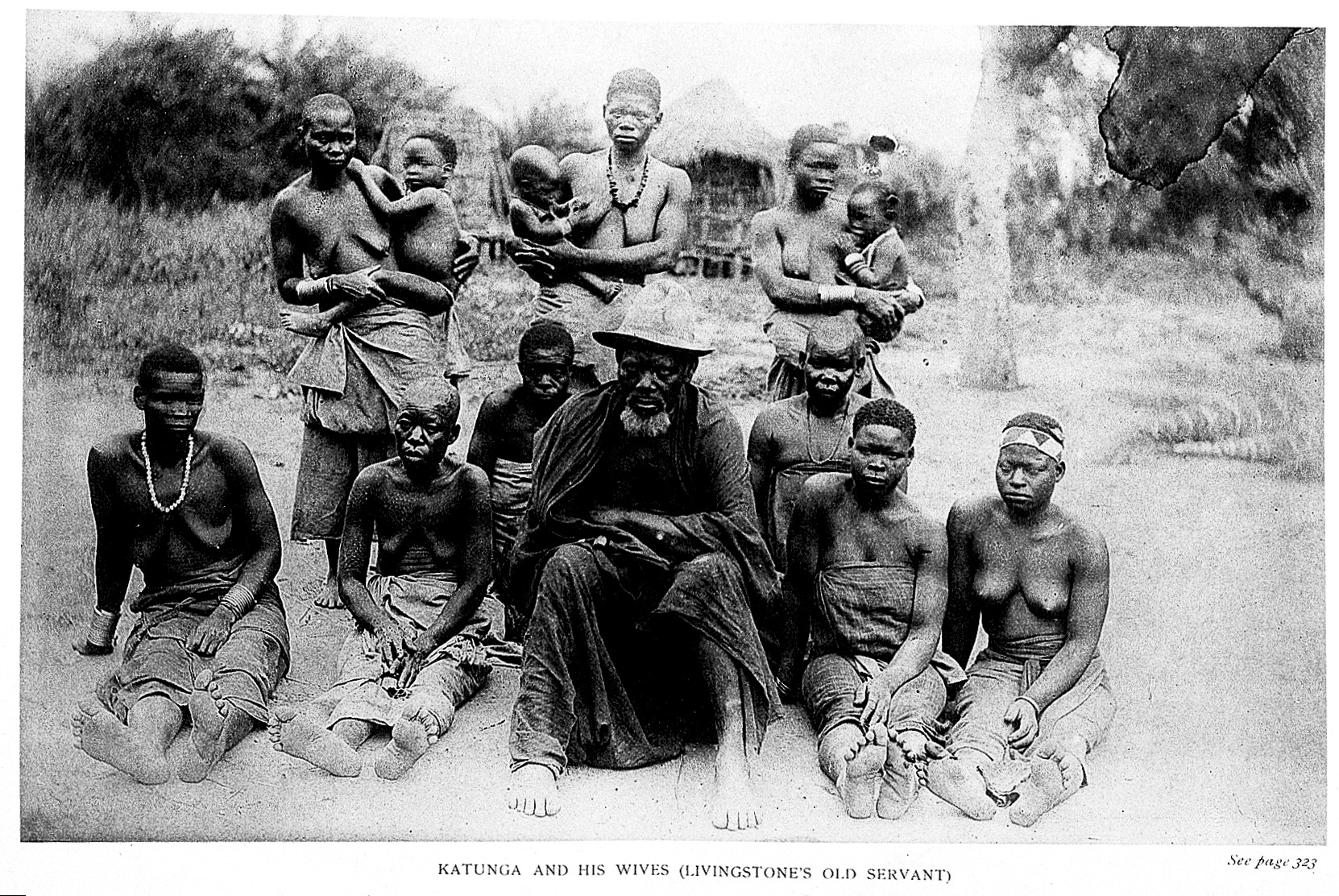 Katanga and his wives. General Collections Keywords: EXPLORATION; Africa; James Johnston